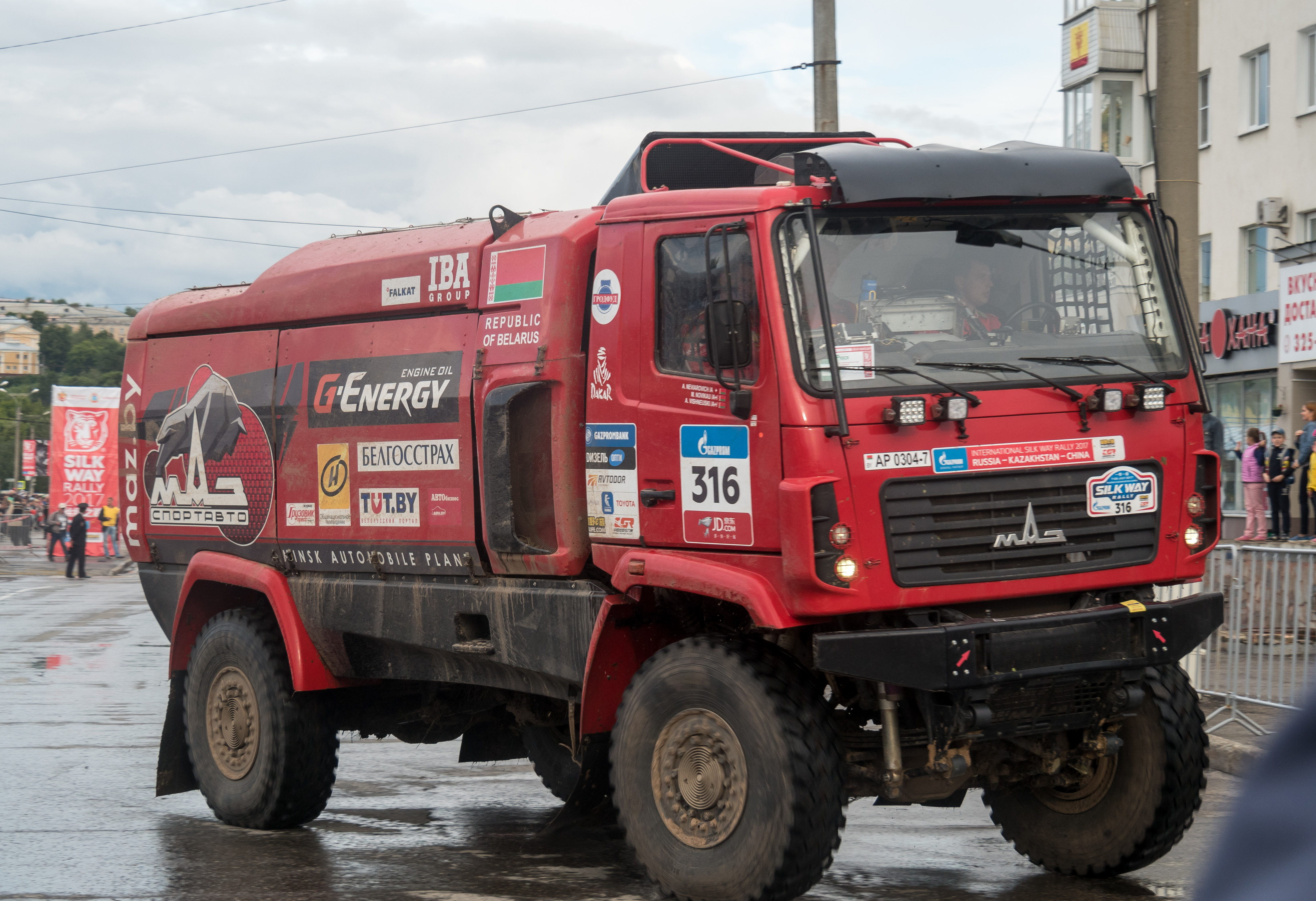 Truck #316. Silk Way Rally-2017. MAZ-SPORTauto